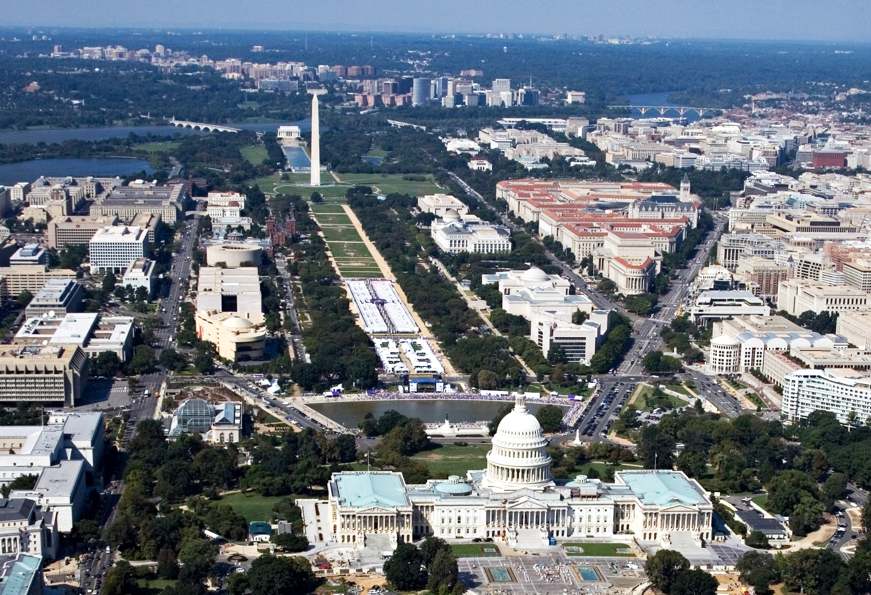 Aerial view (looking west) of Capitol Hill and the National Mall in Washington, D.C., United States